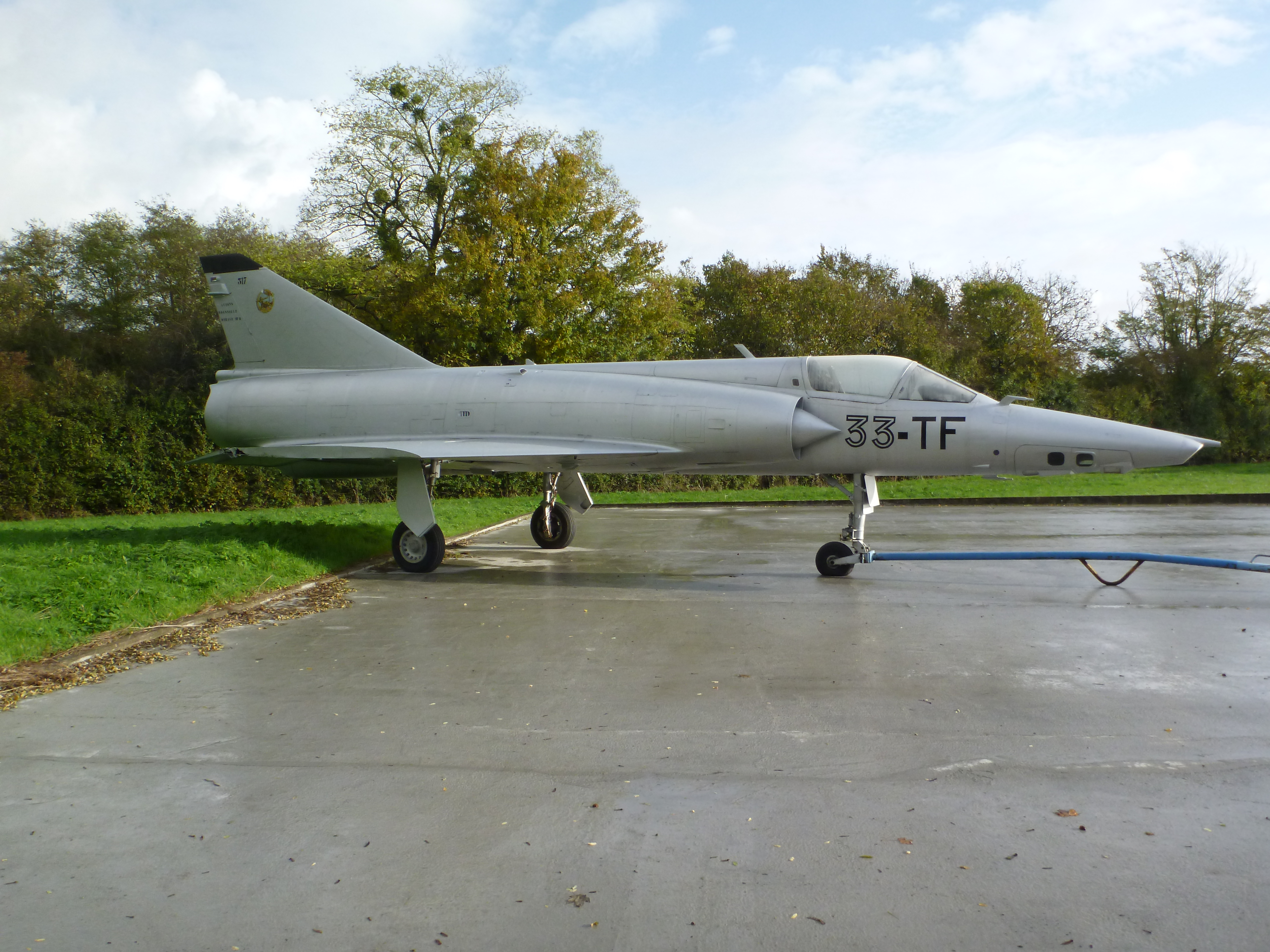 Mirage III R (33-TF, No. 317) from the EC 3/33, "Moselle" from Strasbourg-Entzheim. She was is the last Mirage IIIR to be removed from service at 25. Februar 1988.